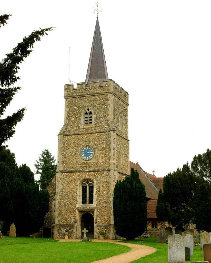 St. Mary's Church, Hertingfordbury. Photo: E. Smethurst